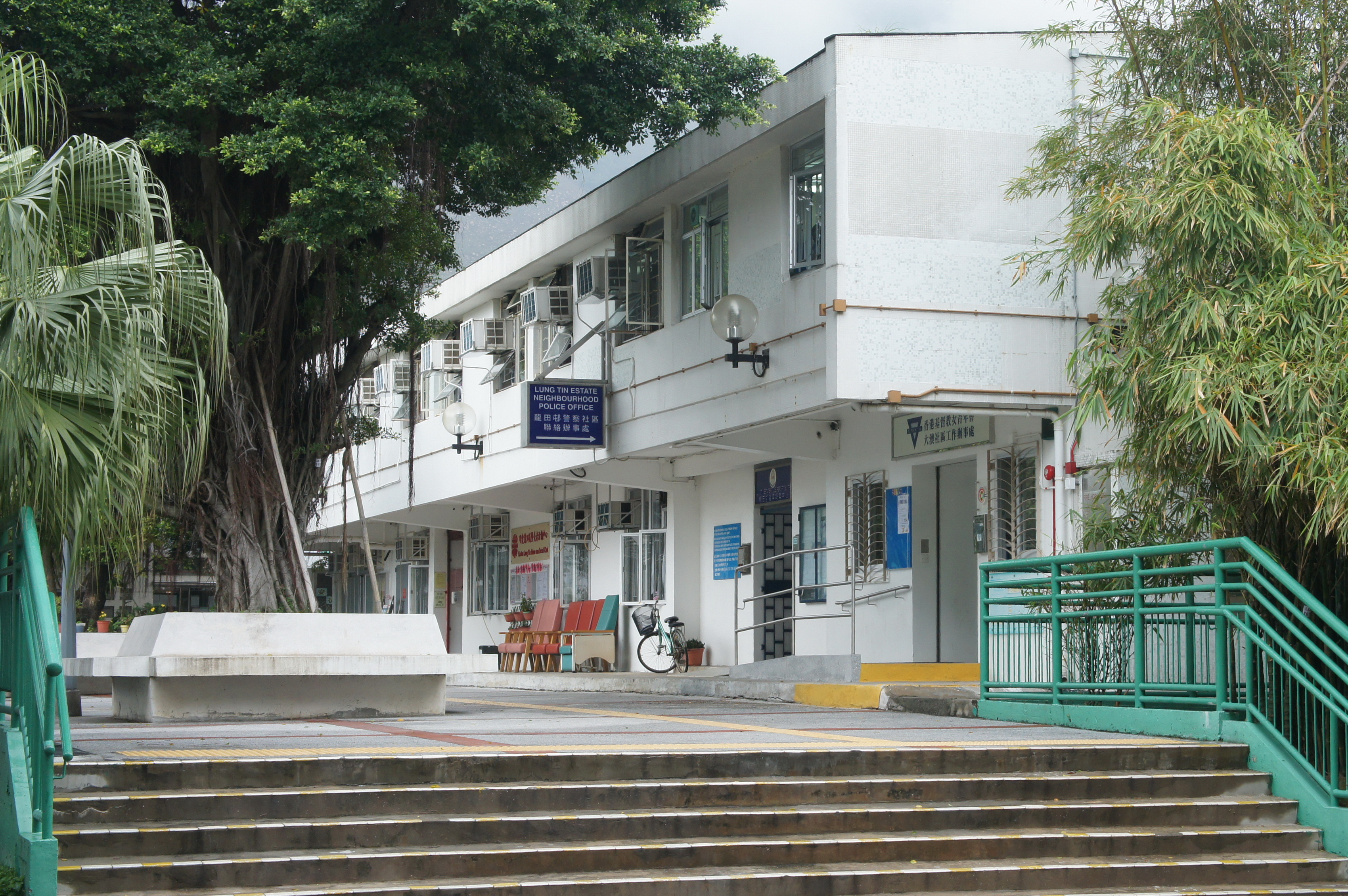 Lung Tin Shopping Centre, Lung Tin Estate, Tai O, Lantau Island, Hong Kong.